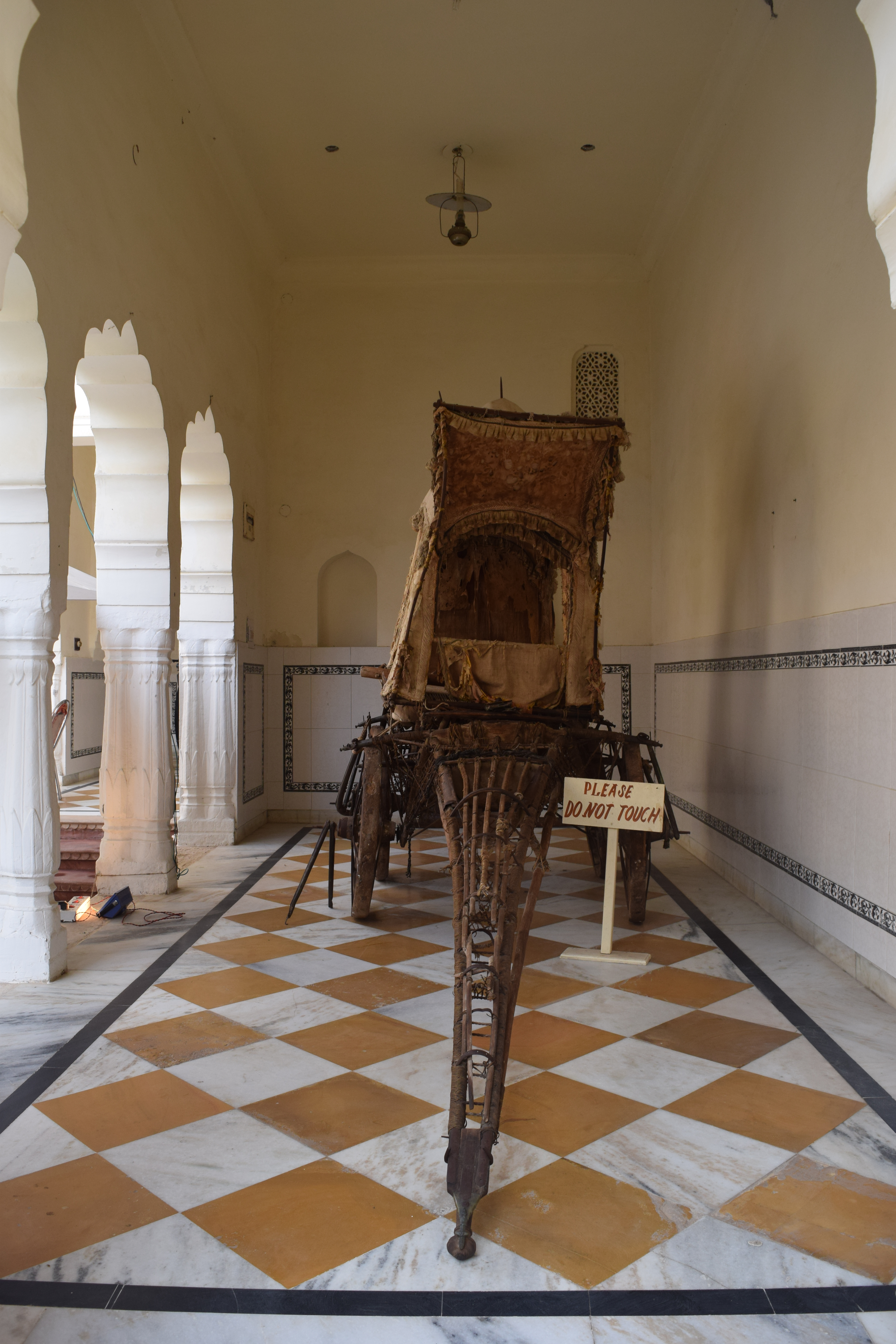 Alsiar Mahal Gallery Source